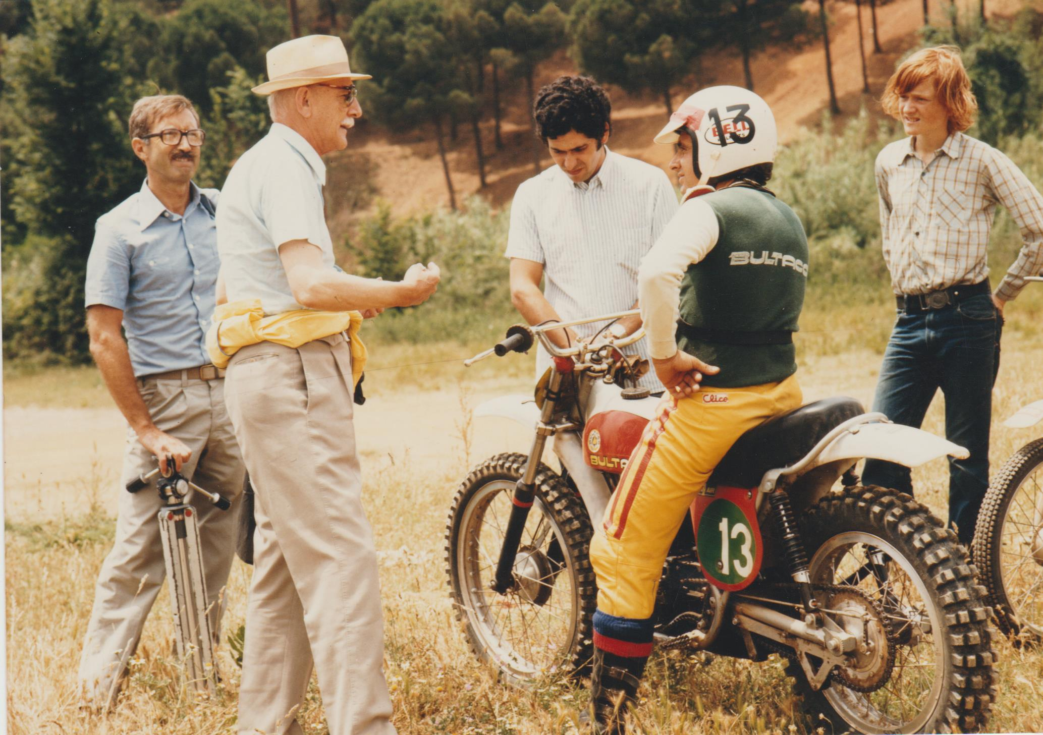 Domingo Gris chatting with Paco Bultó about 1973, during a photo shoot at the Vallès Circuit